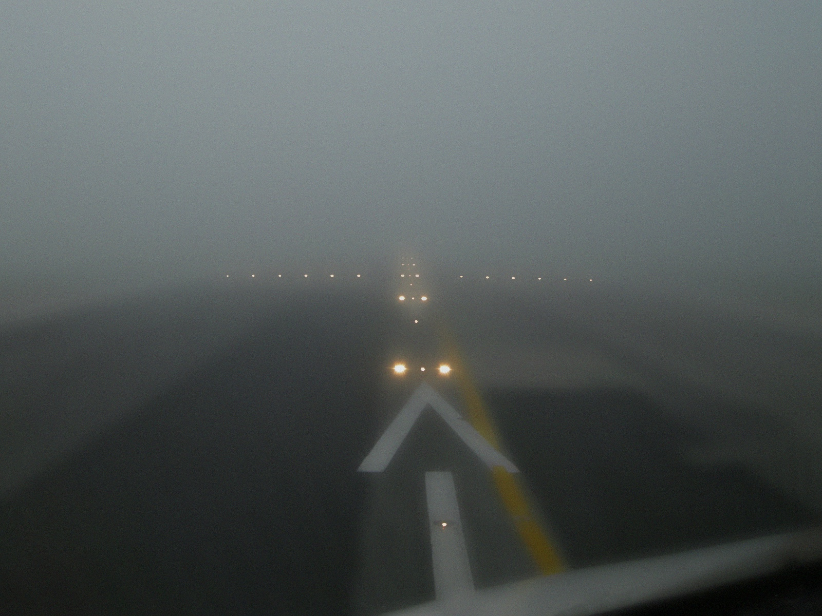 Standing by for the takeoff clearance on Lisbon's runway 21. Unusually dense fog for Lisbon is present making this an LVTO (Low Visibility Take Off) since the reported touchdown zone RVR (runway visual range) is 200m. A319 CS-TTP bound to Oslo.